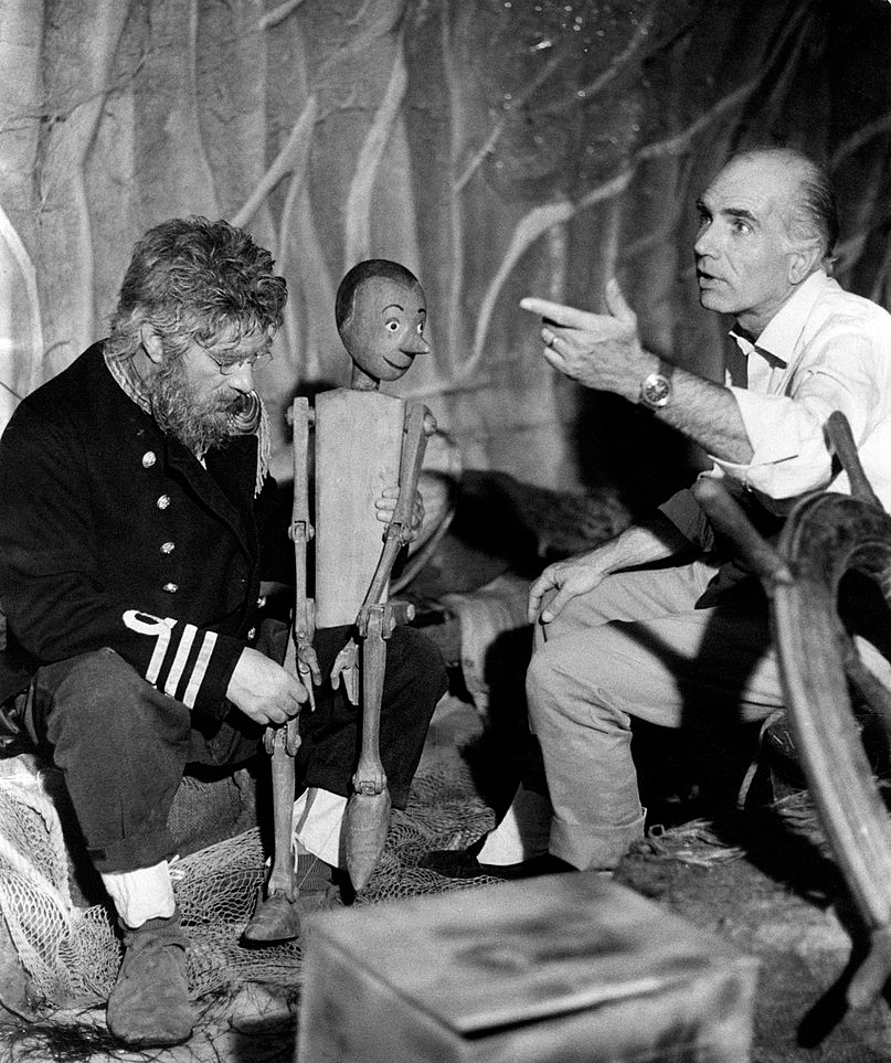 The Italian actor and director Nino Manfredi holding the puppet of Pinocchio on the set of the TV serial The Adventures of Pinocchio. The Italian director Luigi Comencini gives him some directions. Rome, 1971